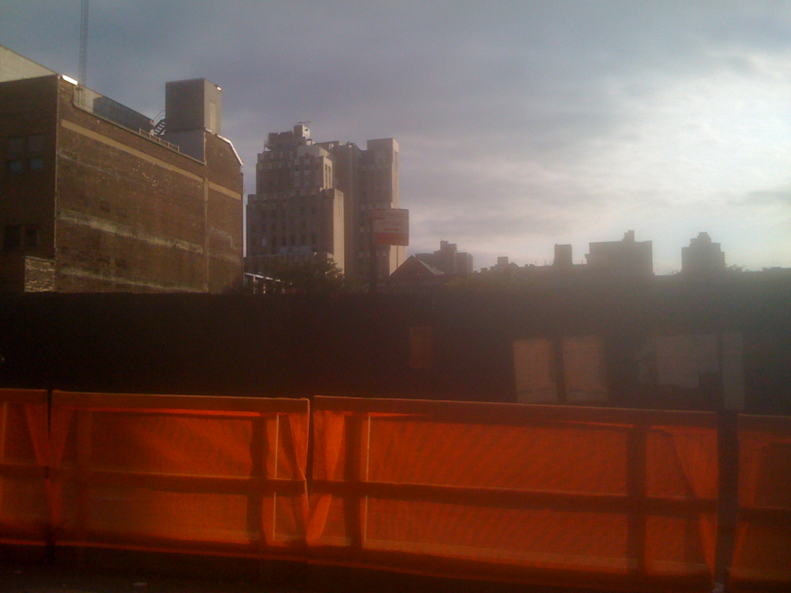 This photo is of Wikis Take Manhattan goal code C9, Sony Music Studios.